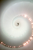 Independence Temple: Looking up the spire from the sanctuary.